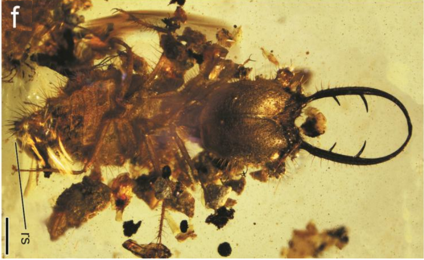 Figure 2 Diversity of the larvae of Myrmeleontiformia in mid-Cretaceous Burmese amber. F) Adelpholeon lithophorus holotype AMNH JCZ-Bu31 habitus ventral view Abbreviation: rs, rostrum. Scale bar: 0.5 mm.